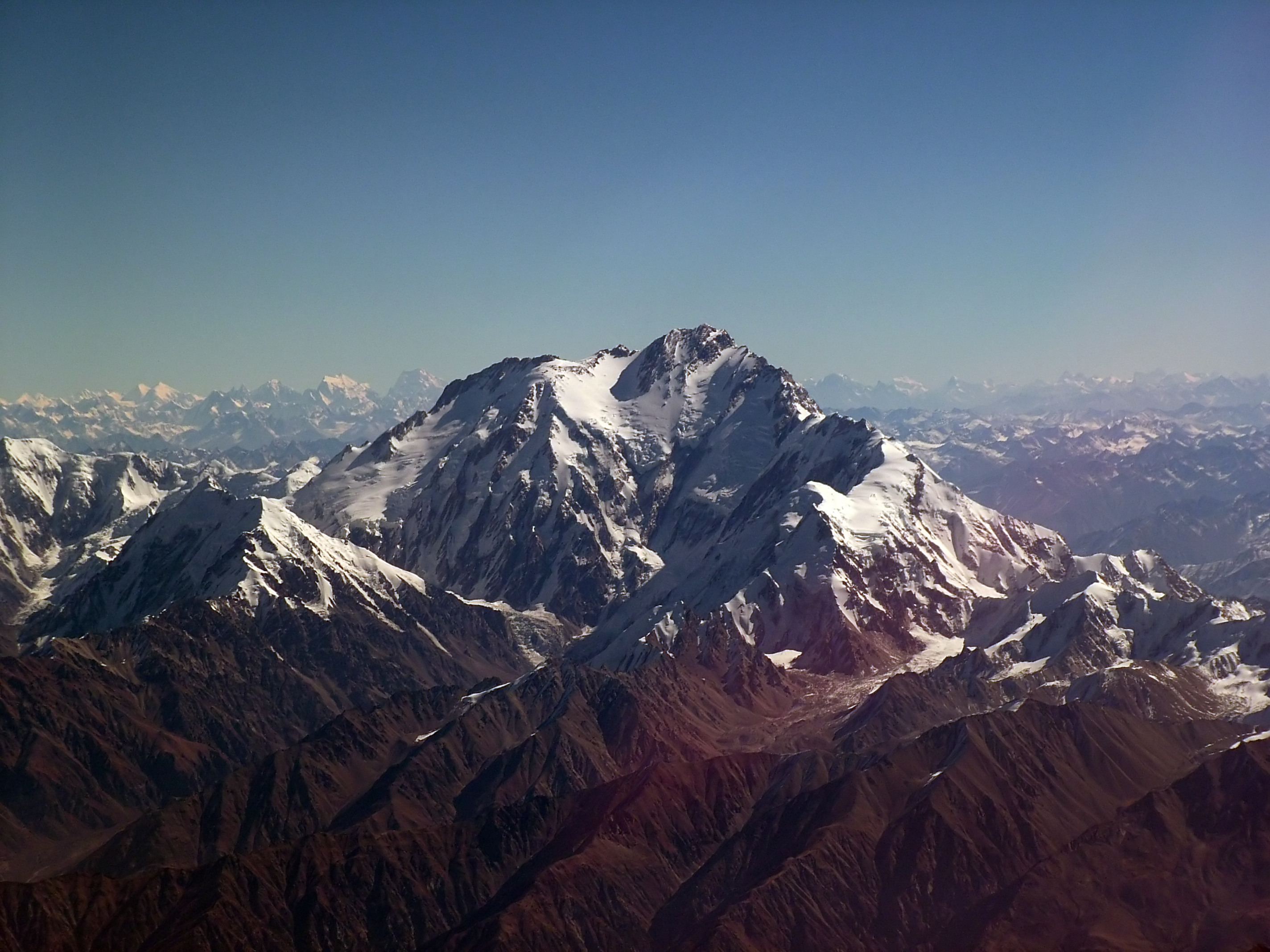 Nanga Parbat from the air: Diamir (west) face. In the background left of Nanga Parbat some peaks of the Karakorams: Saltoro Kangri, K6, Sherpi Kangri(?) and Ghent (the snow-covered double-summit) (right to left)